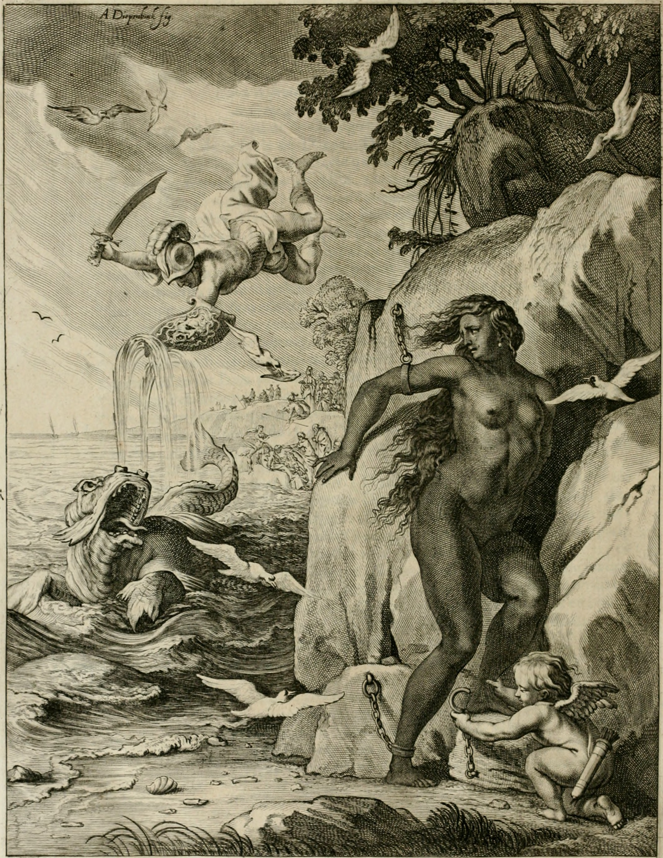 Title: Tableaux du temple des muses : tirez du cabinet de feu Mr. Fauereau, conseiller du roy en sa Cour des aydes, & grauez en tailles-douces par les meilleurs maistres de son temps, pour representer les vertus & les vices, sur les plus illustres fables de l'antiquité Year: 1655 (1650s) Authors: Marolles, Michel de, 1600-1681 Bloemaert, Cornelis, 1603-1692 Diepenbeeck, Abraham van, 1596-1675 Brebiette, Pierre, 1598?-1642 Langlois, Nicolas, 17th cent Subjects: Favereau, Jacques, 1590-1675 Mythology, Classical, in art Painting, European Publisher: A Paris : Chez Nicolas L'Anglois, ruë Sainct Iacques, aux Colomnes d'Hercule Text Appearing Before Image: 7iec in Boream, aut in Noton effugit vmbram. ANDROMEDE. Text Appearing After Image: Aiiclrojnede . Aêojaotç cfl Avjpojjucfnç cUj?Auc7ix,7d. Noiiniis lib. 47. /^^ 3IJ